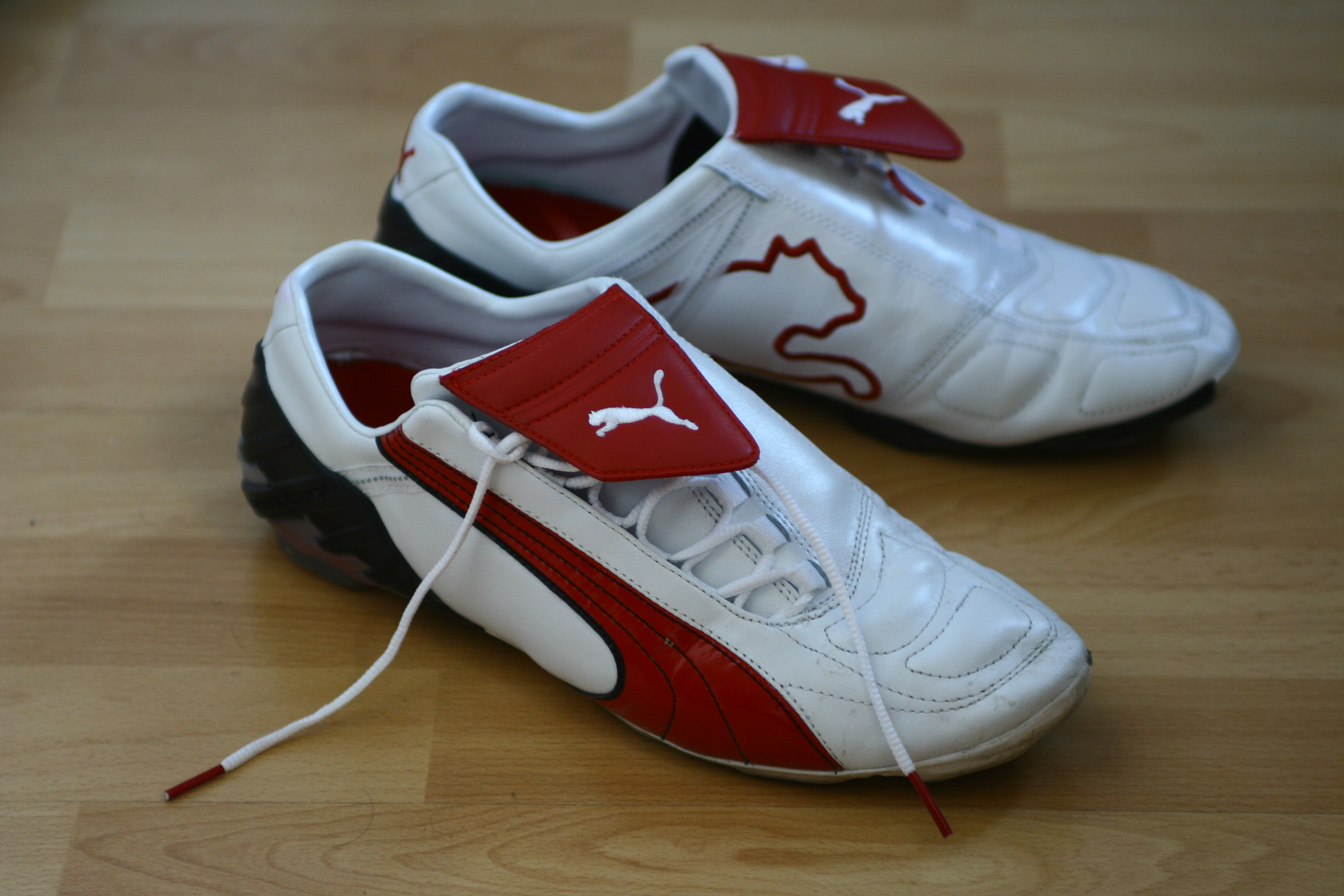 A sports-lifestyle shoe by puma